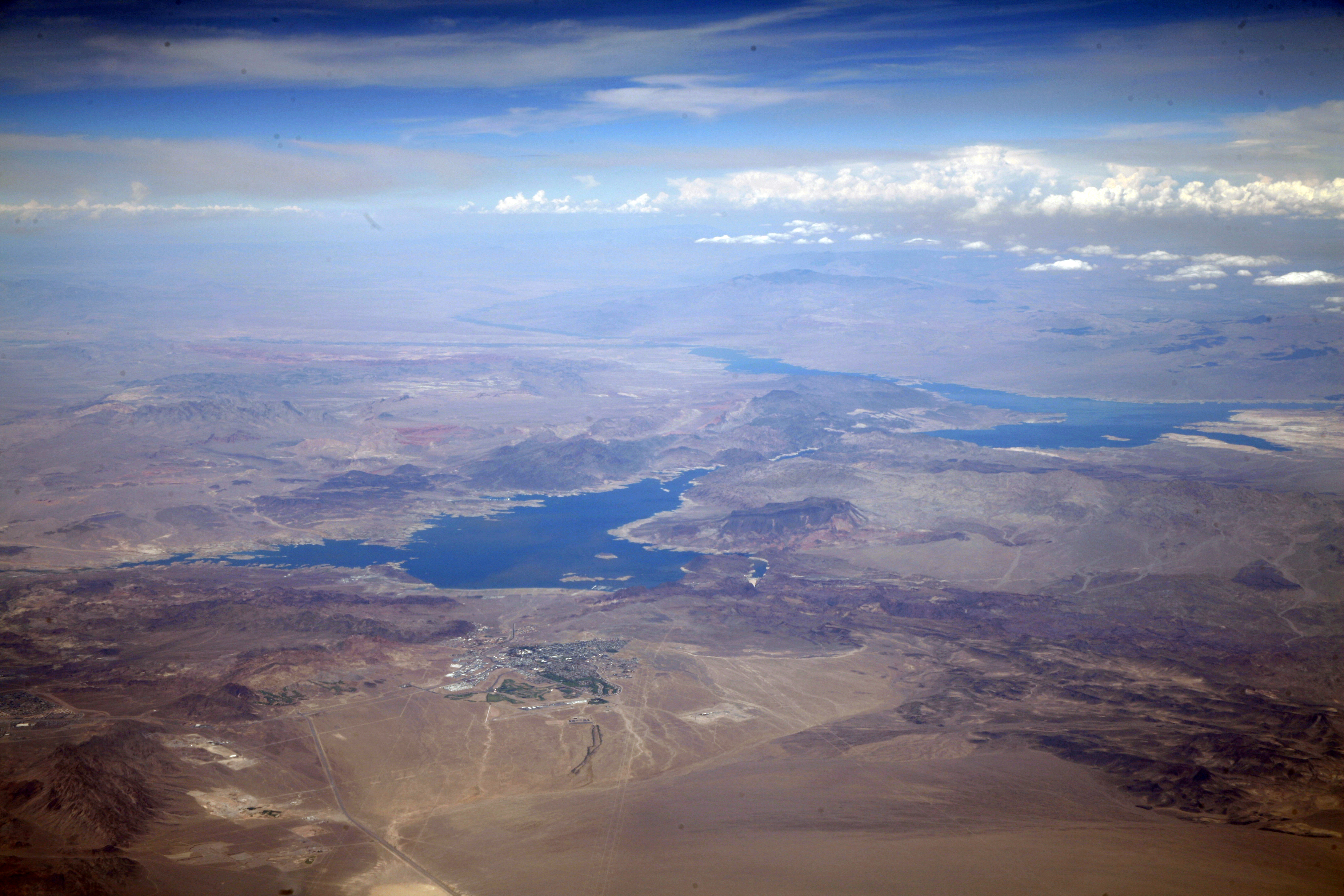 Lake Mead, Boulder City and vicinity